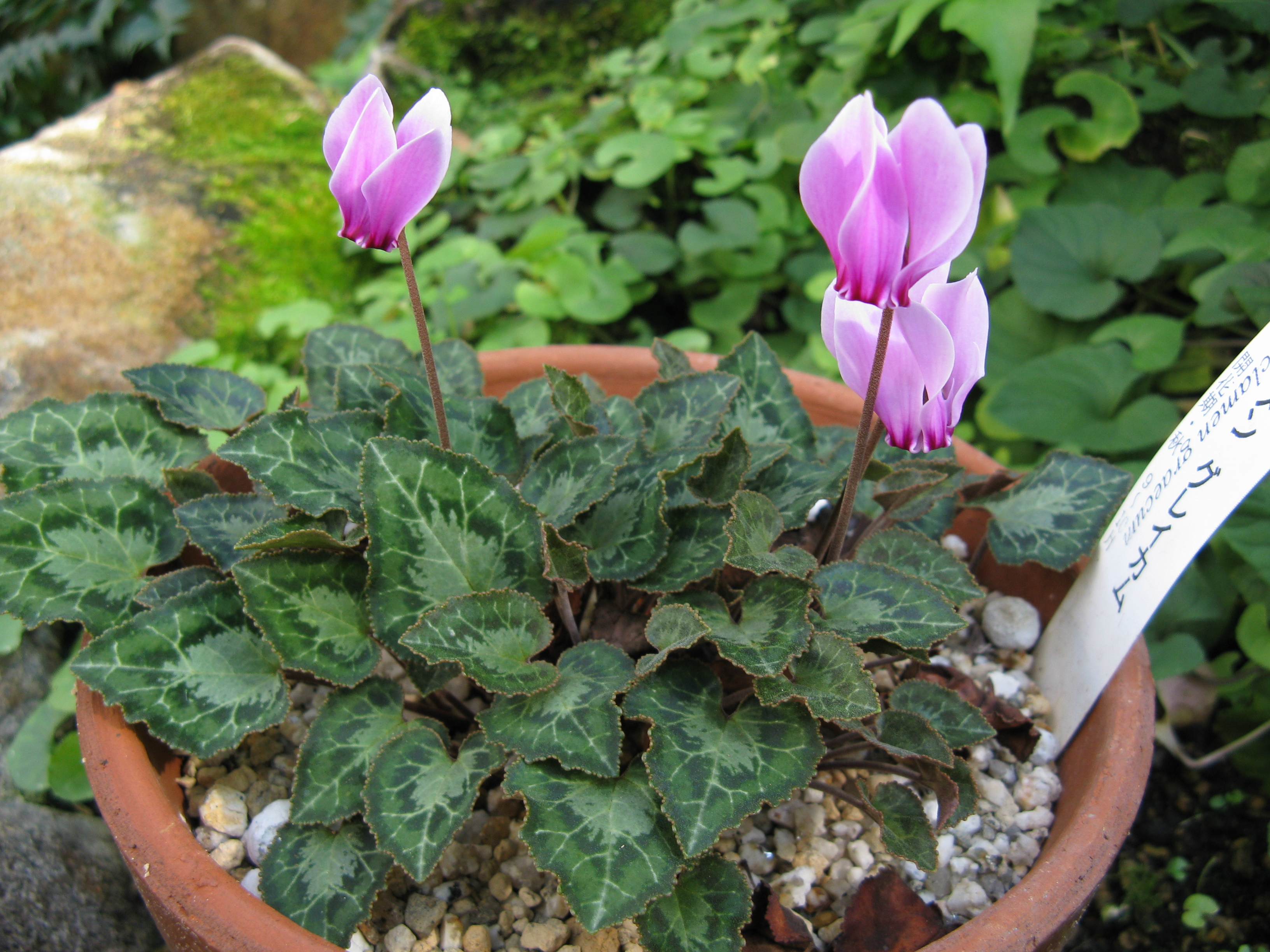 Cyclamen graecum Place:Osaka Prefectural Flower Garden,Osaka,Japan